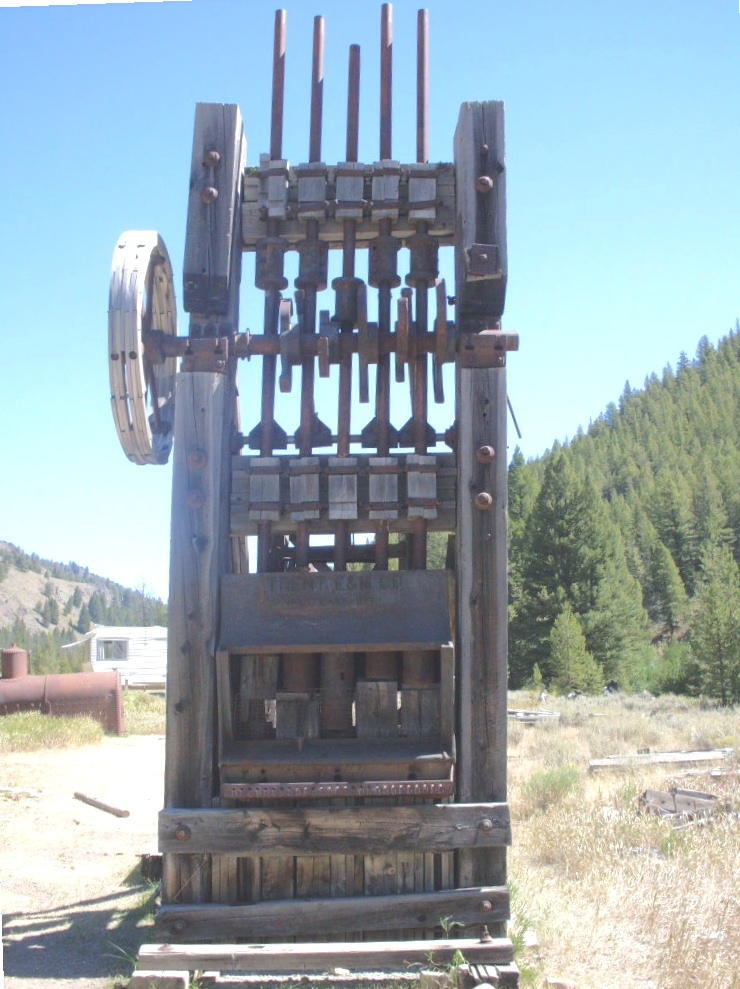 Five battery stamp mill